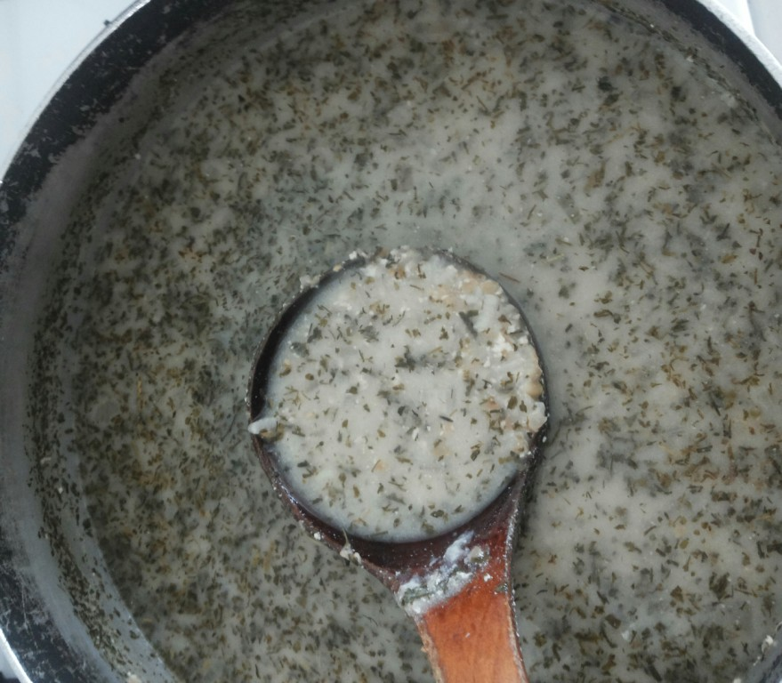 Doyne, a Kurdish food.